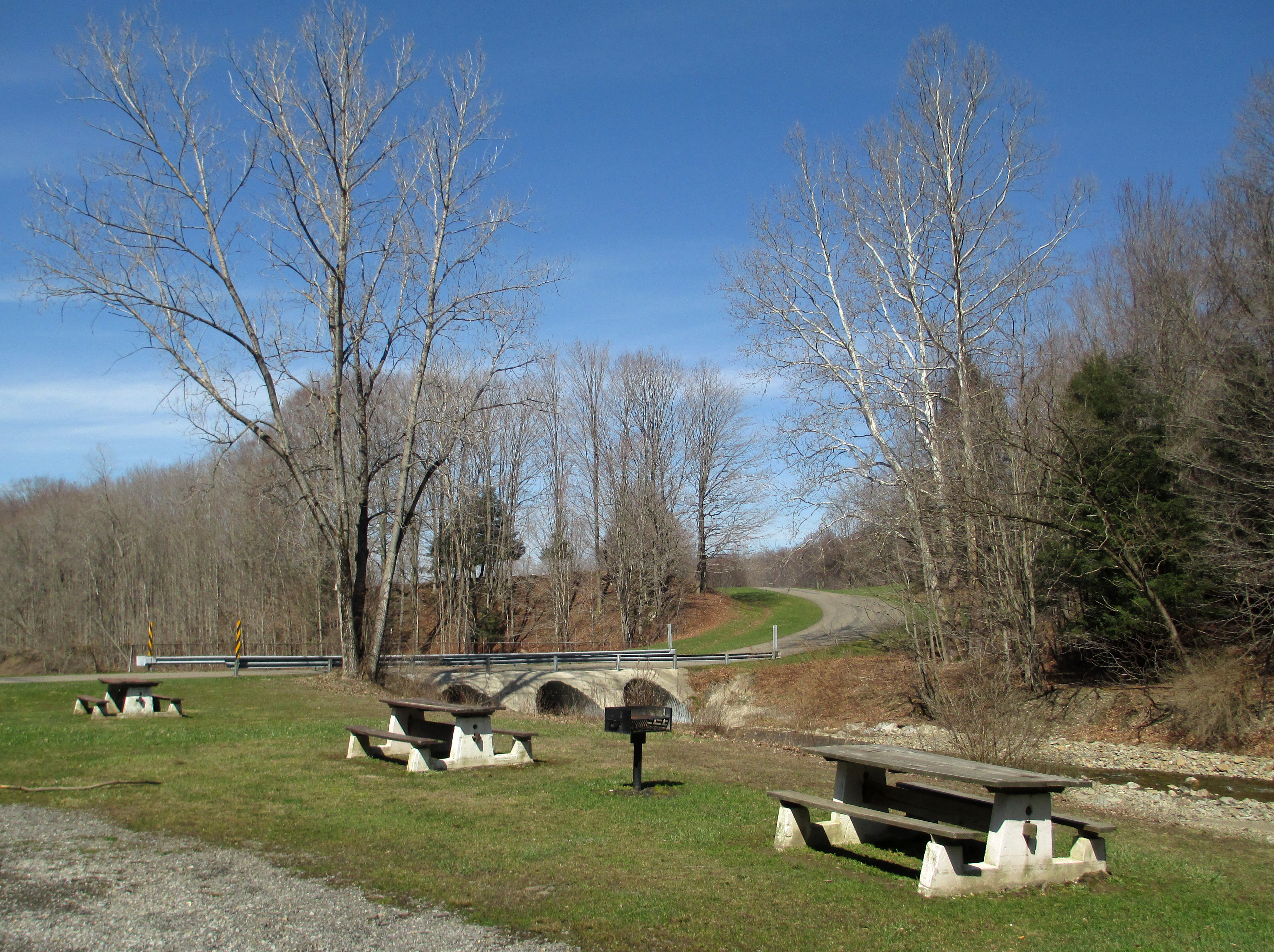 View of a picnic area along Sprague Brook at Sprague Brook County Park in March 2016.